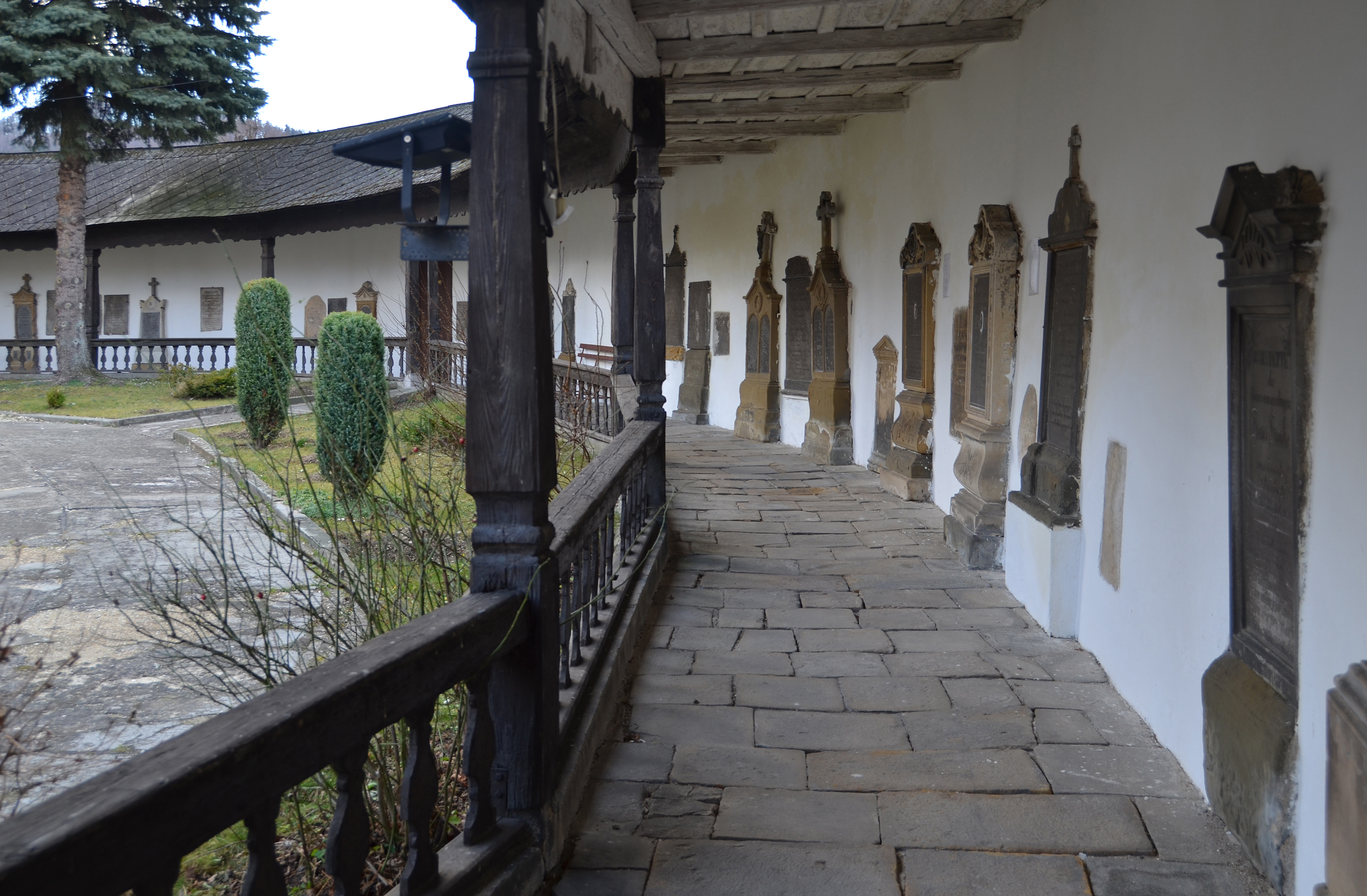 Church of Saint Martin in Żelazno, defensive wall with the cloister